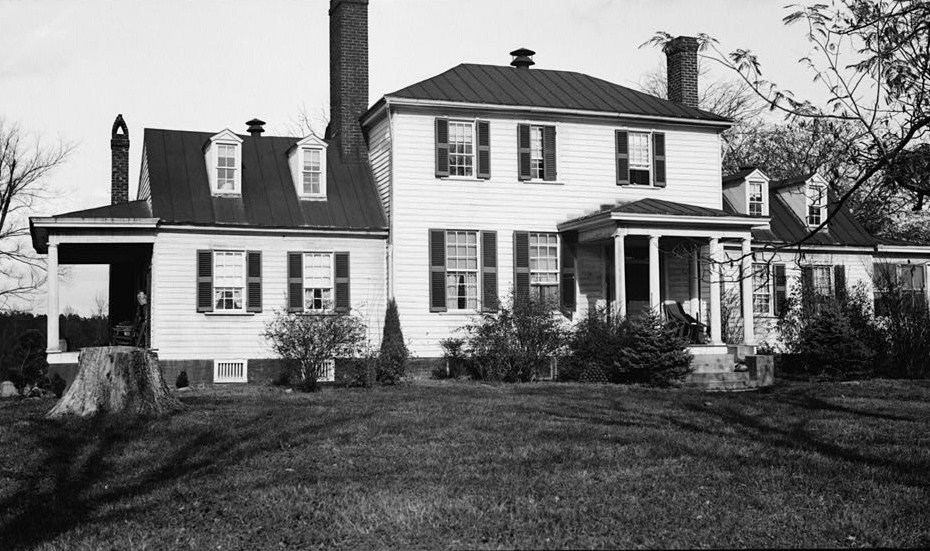 Burnt Quarter, State Route 613 vicinity, Dinwiddie vicinity (Dinwiddie County, Virginia) cropped This file comes from the Historic American Buildings Survey (HABS), Historic American Engineering Record (HAER) or Historic American Landscapes Survey (HALS). These are programs of the National Park Service established for the purpose of documenting historic places. Records consist of measured drawings, archival photographs, and written reports. When reusing please credit: Library of Congress, Prints & Photographs Division, VA,27-____,2-1 This tag does not indicate the copyright status of the attached work. A normal copyright tag is still required. See Commons:Licensing. This work is in the public domain in the United States because it is a work prepared by an officer or employee of the United States Government as part of that person’s official duties under the terms of Title 17, Chapter 1, Section 105 of the US Code. Note: This only applies to original works of the Federal Government and not to the work of any individual U.S. state, territory, commonwealth, county, municipality, or any other subdivision. This template also does not apply to postage stamp designs published by the United States Postal Service since 1978. (See § 313.6(C)(1) of Compendium of U.S. Copyright Office Practices). It also does not apply to certain US coins; see The US Mint Terms of Use. This file has been identified as being free of known restrictions under copyright law, including all related and neighboring rights.